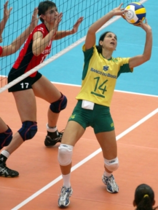 Fernanda Venturini defendendo a camisa da seleção brasileira de vôlei